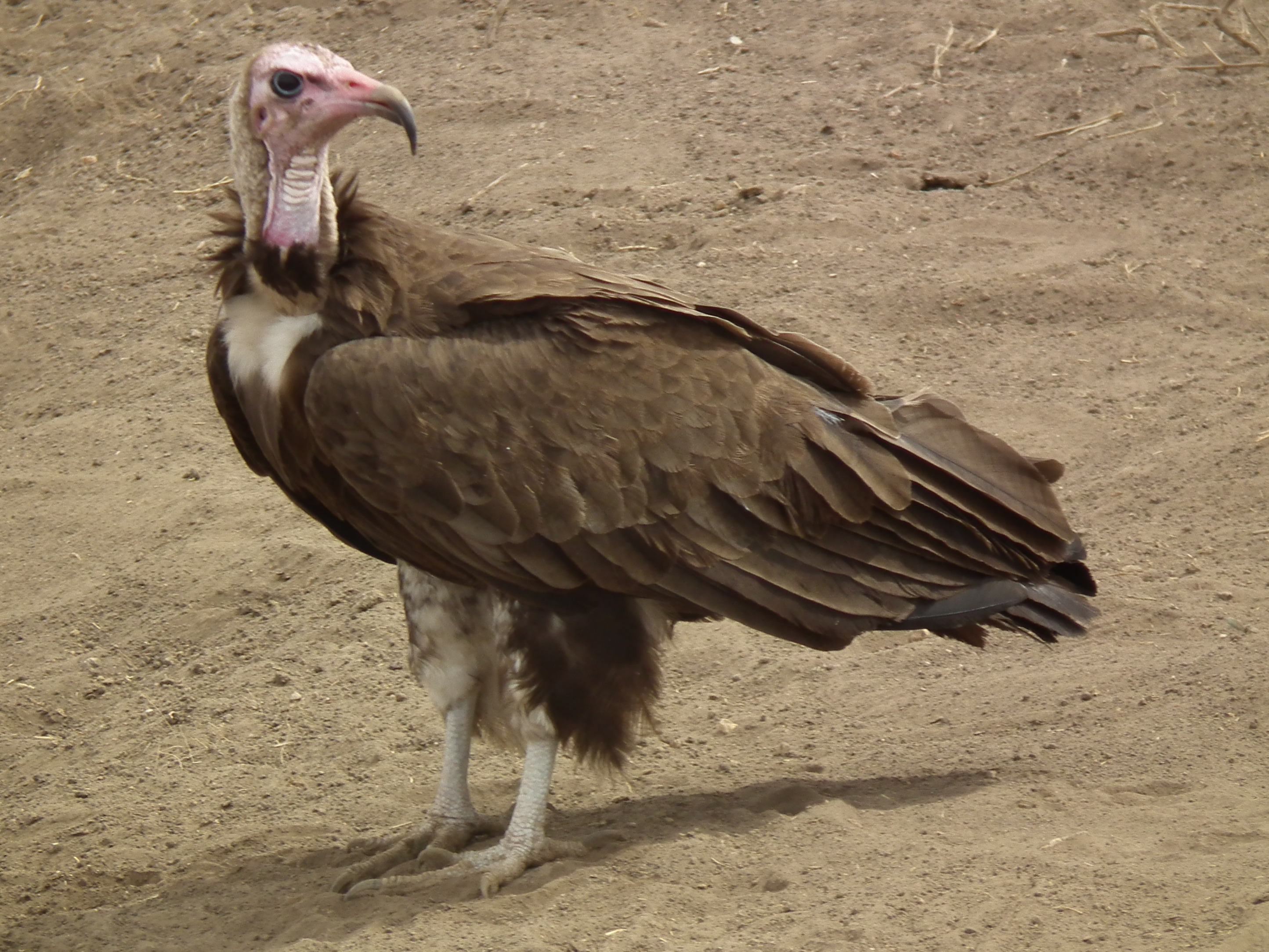 Birds of Tanzania